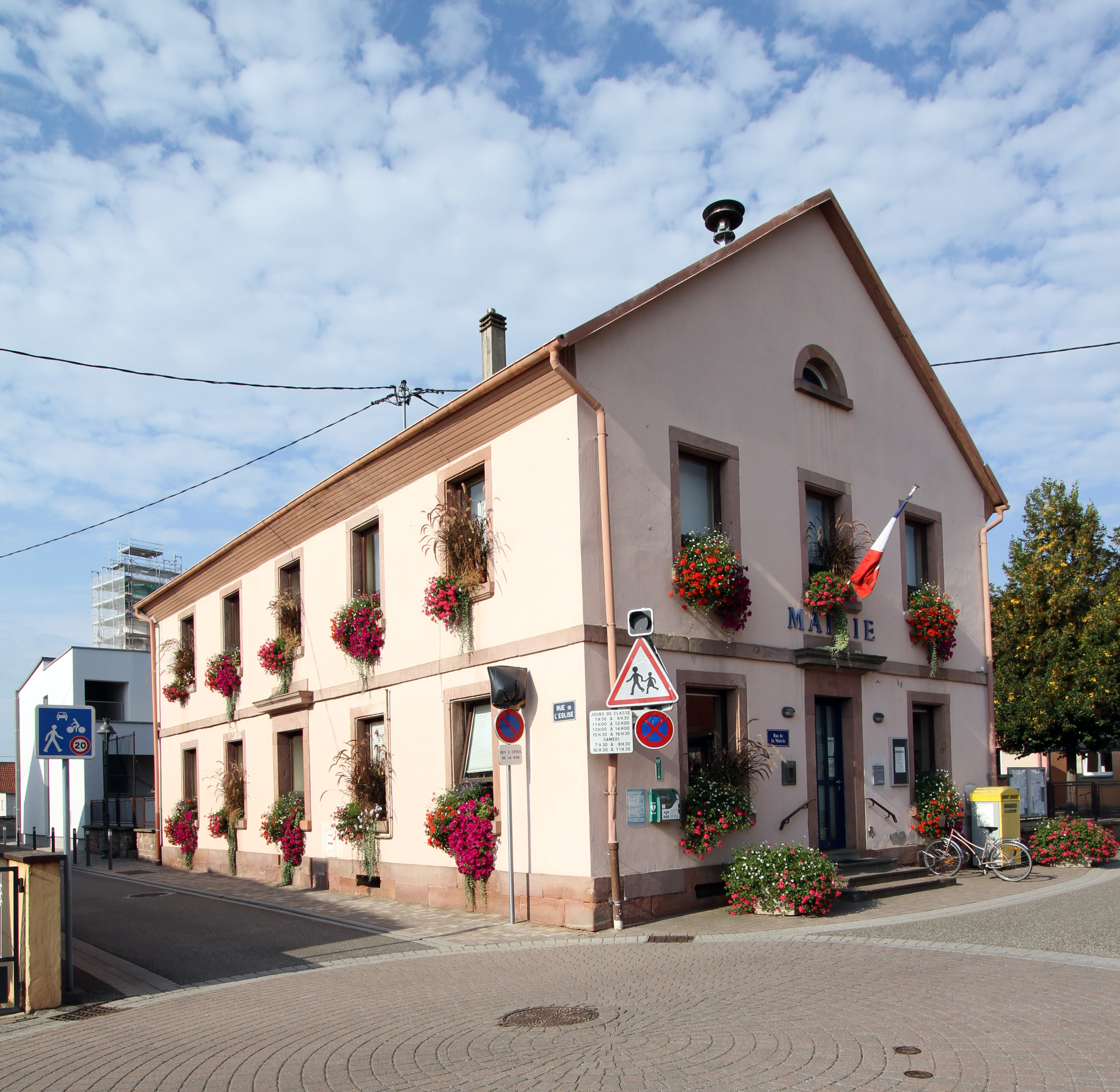 City hall of Mothern.